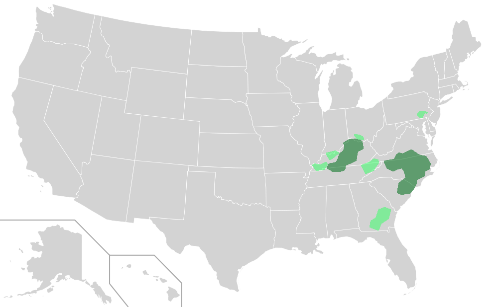 production areas of tobacco in the US, based upon